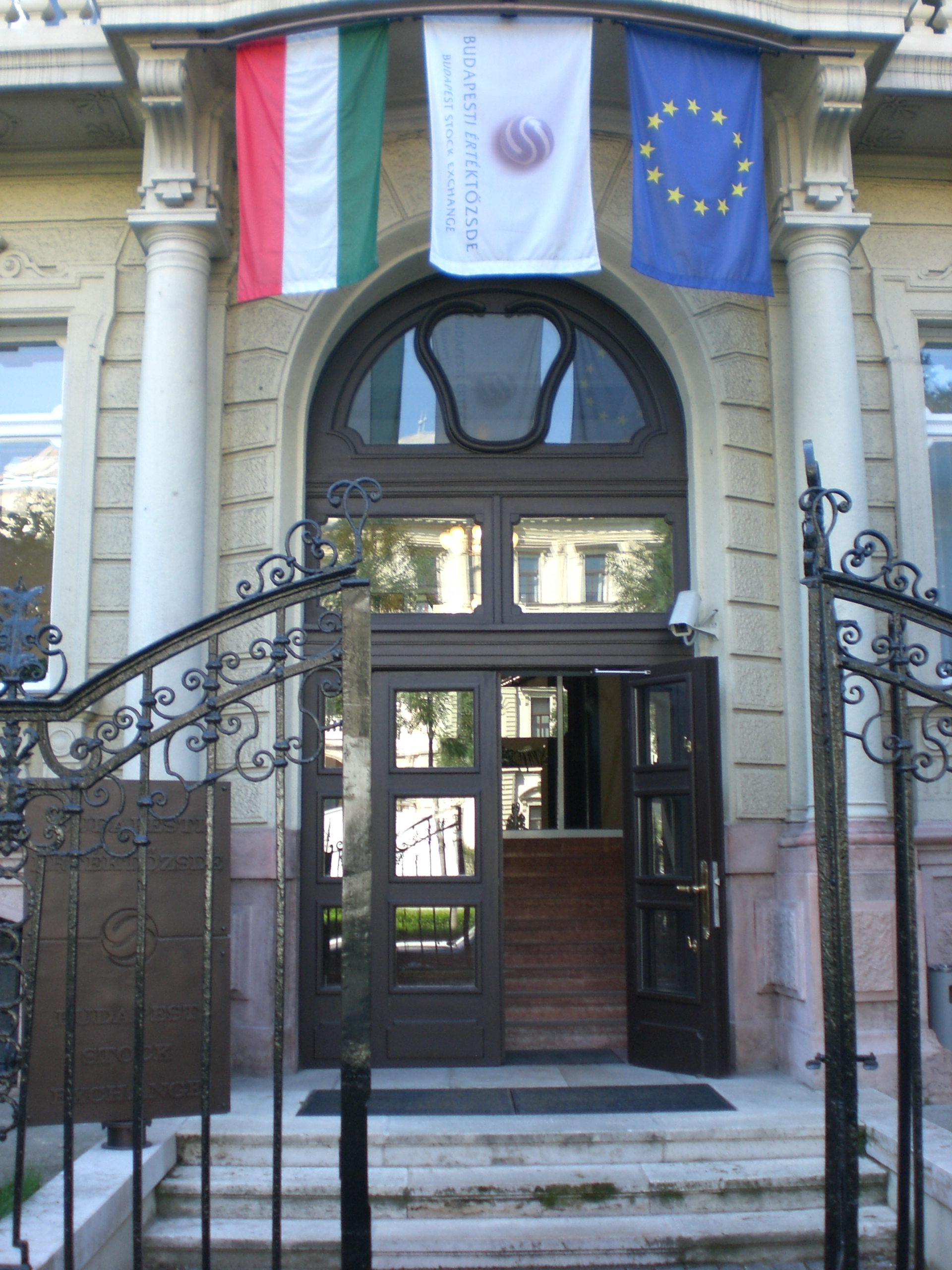 Budapest Stock Exchange